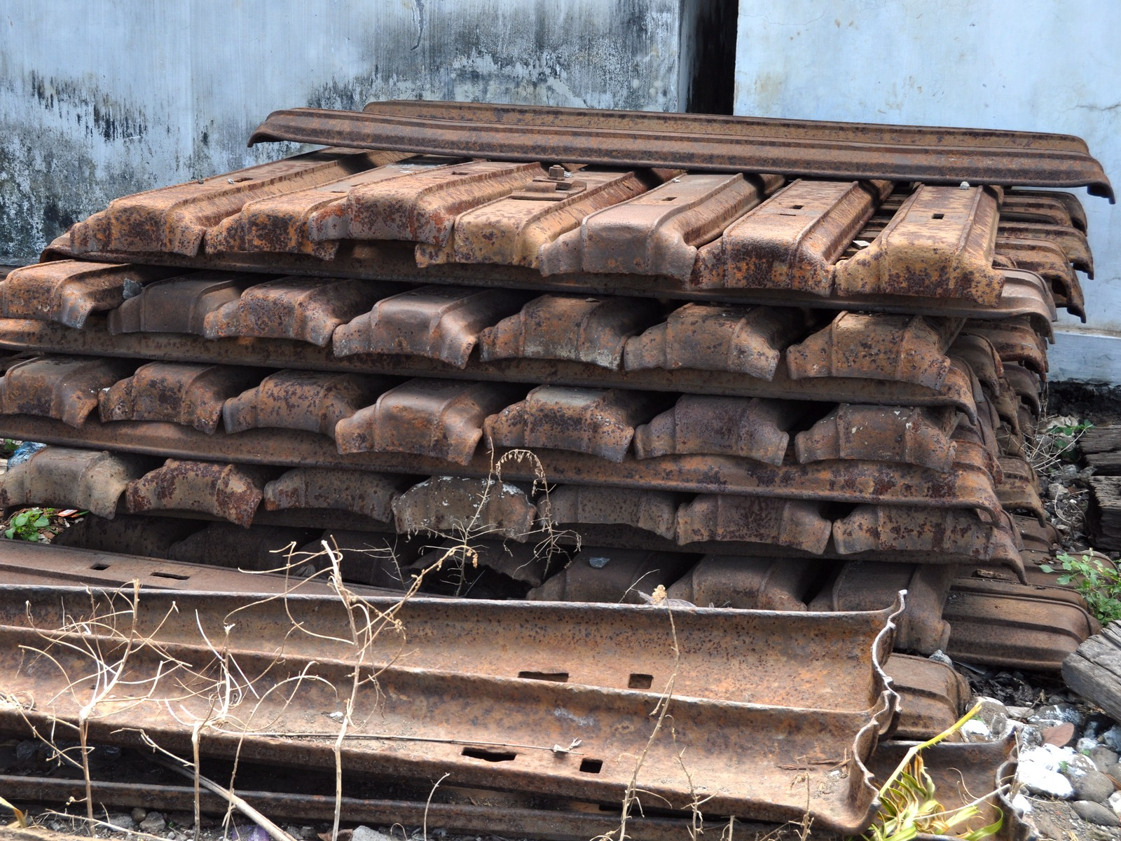 Leces train station in Probolinggo Regency, East Java, Indonesia. Unused steel railway sleepers.